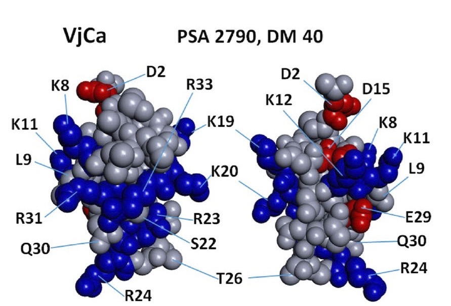 Three-Dimensional Modeling of Vejocalcin